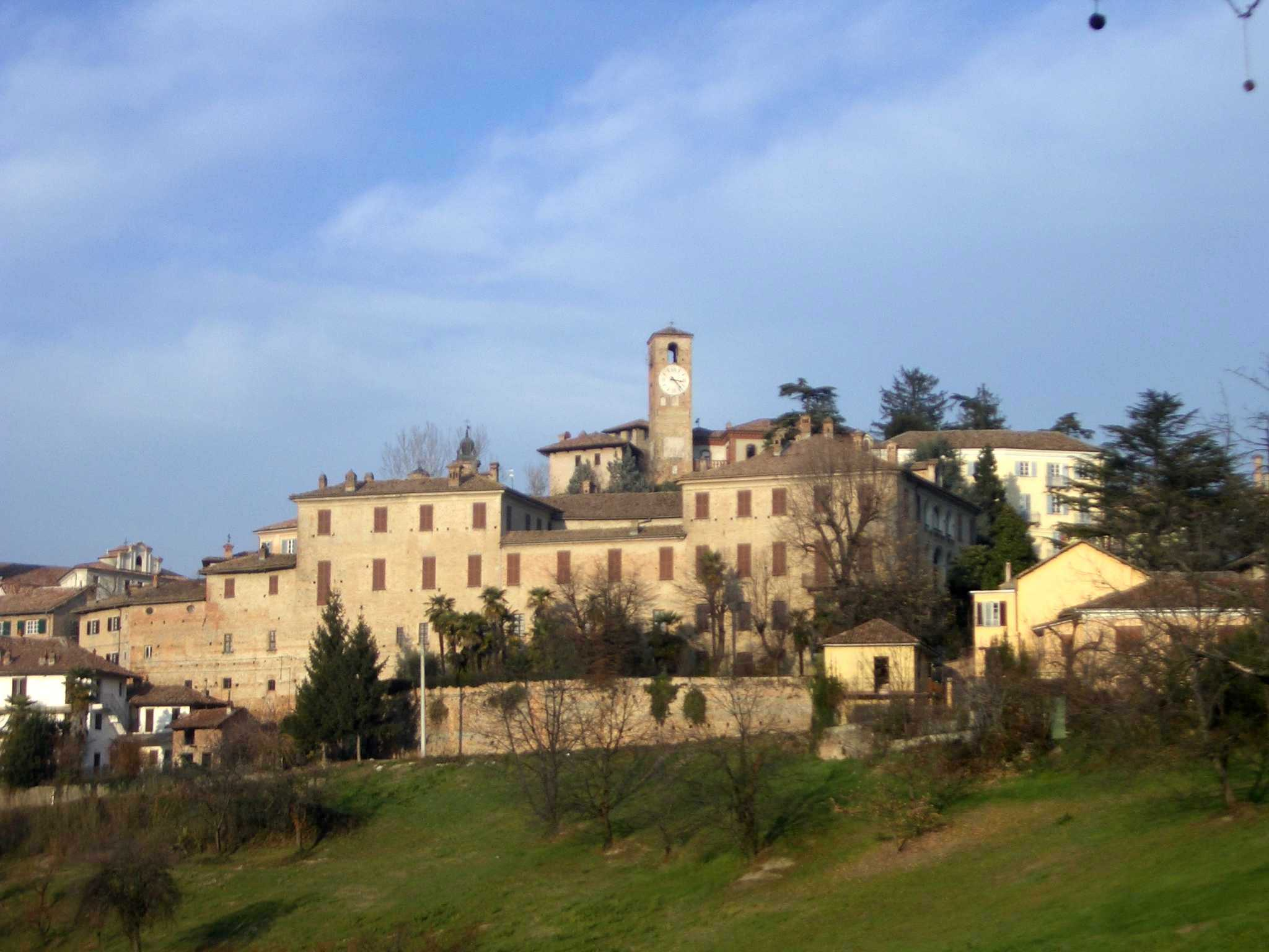 Landscape , Neive, Cuneo, Italy